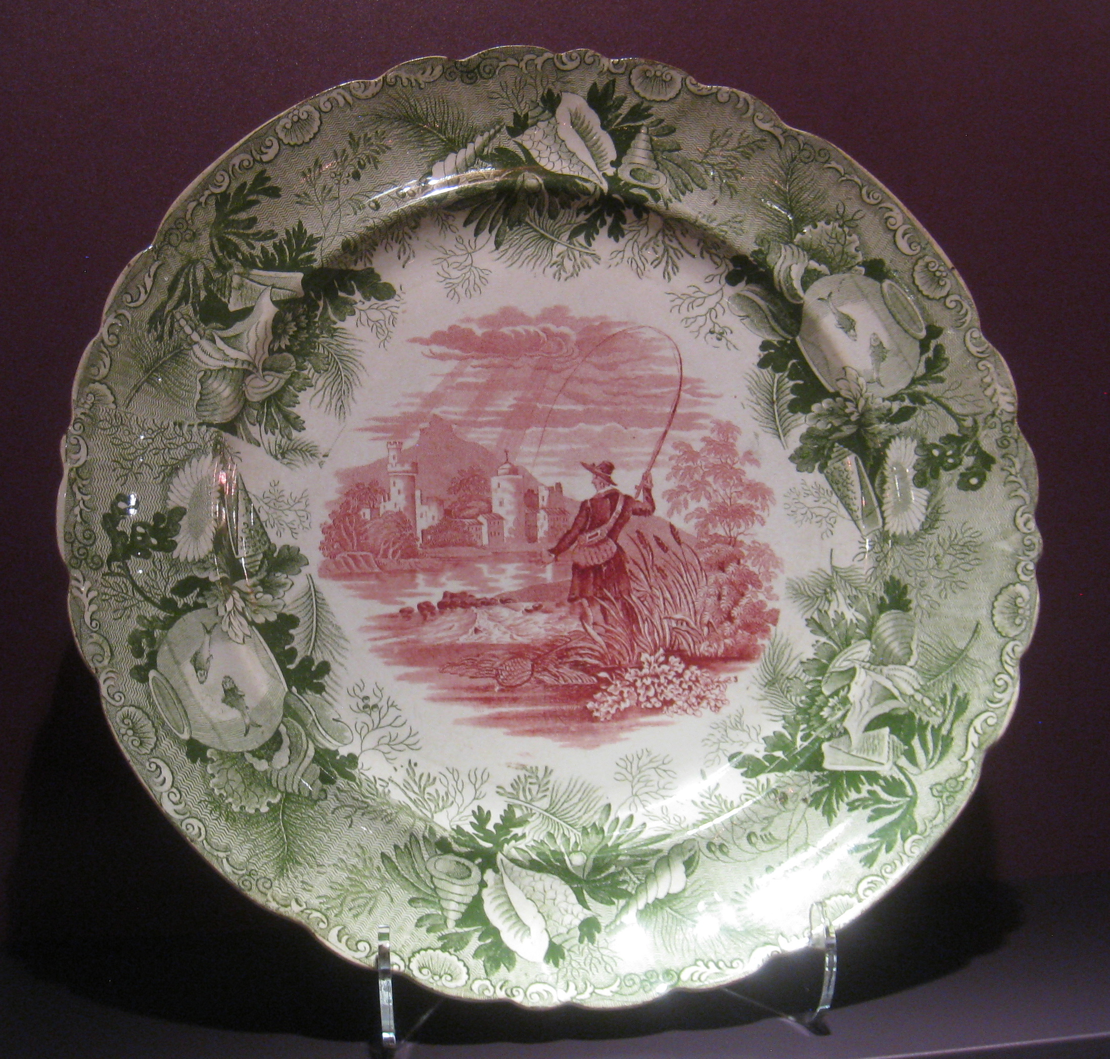 Plate, earthenware with transfer-printed decorations; Enoch Wood & Sons, circa 1830. Pottery exhibited in the DAR Museum, National Society Daughters of the American Revolution, 1776 D Street NW, Washington, DC, USA.